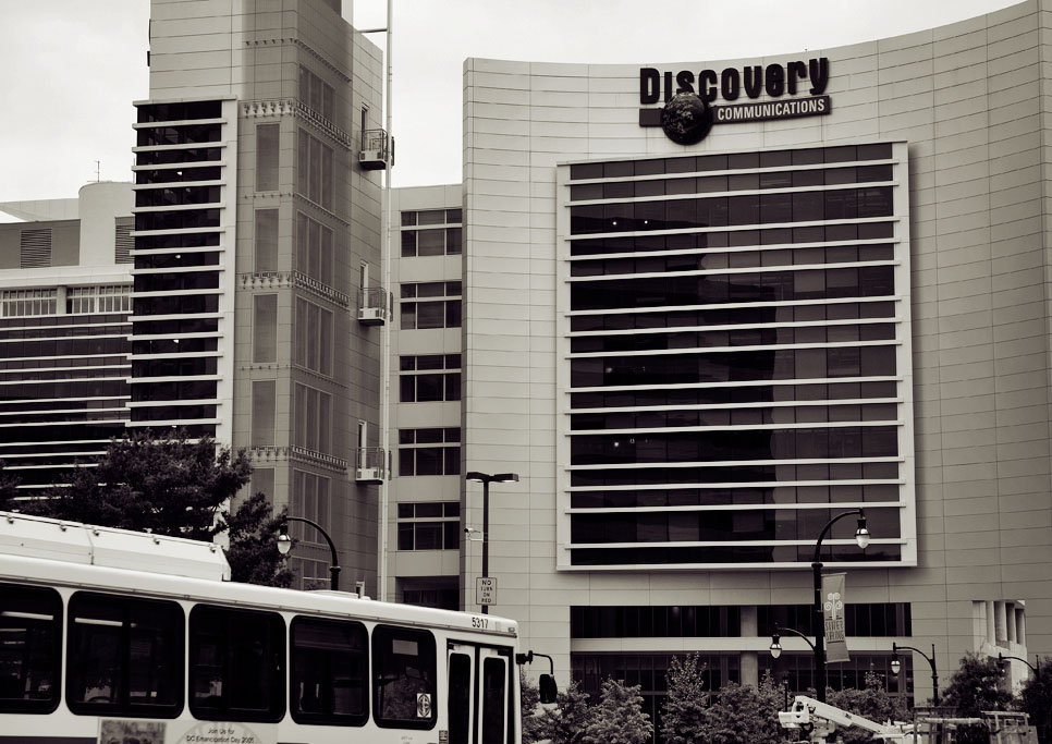 It's amazing to see how Discovery has served as a catalyst for Silver Spring's development--well, that and the metro/public transportation.